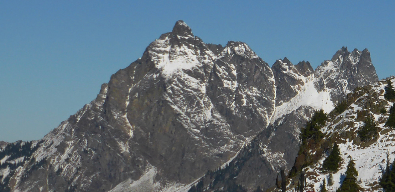 Canadian Border Peak seen from Yellow Aster Butte